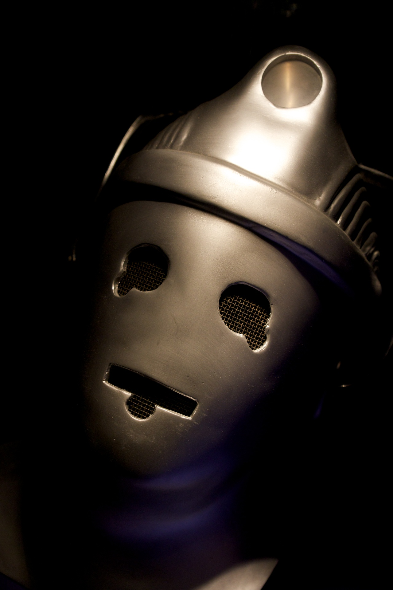 60s Cyberman Doctor Who Experience